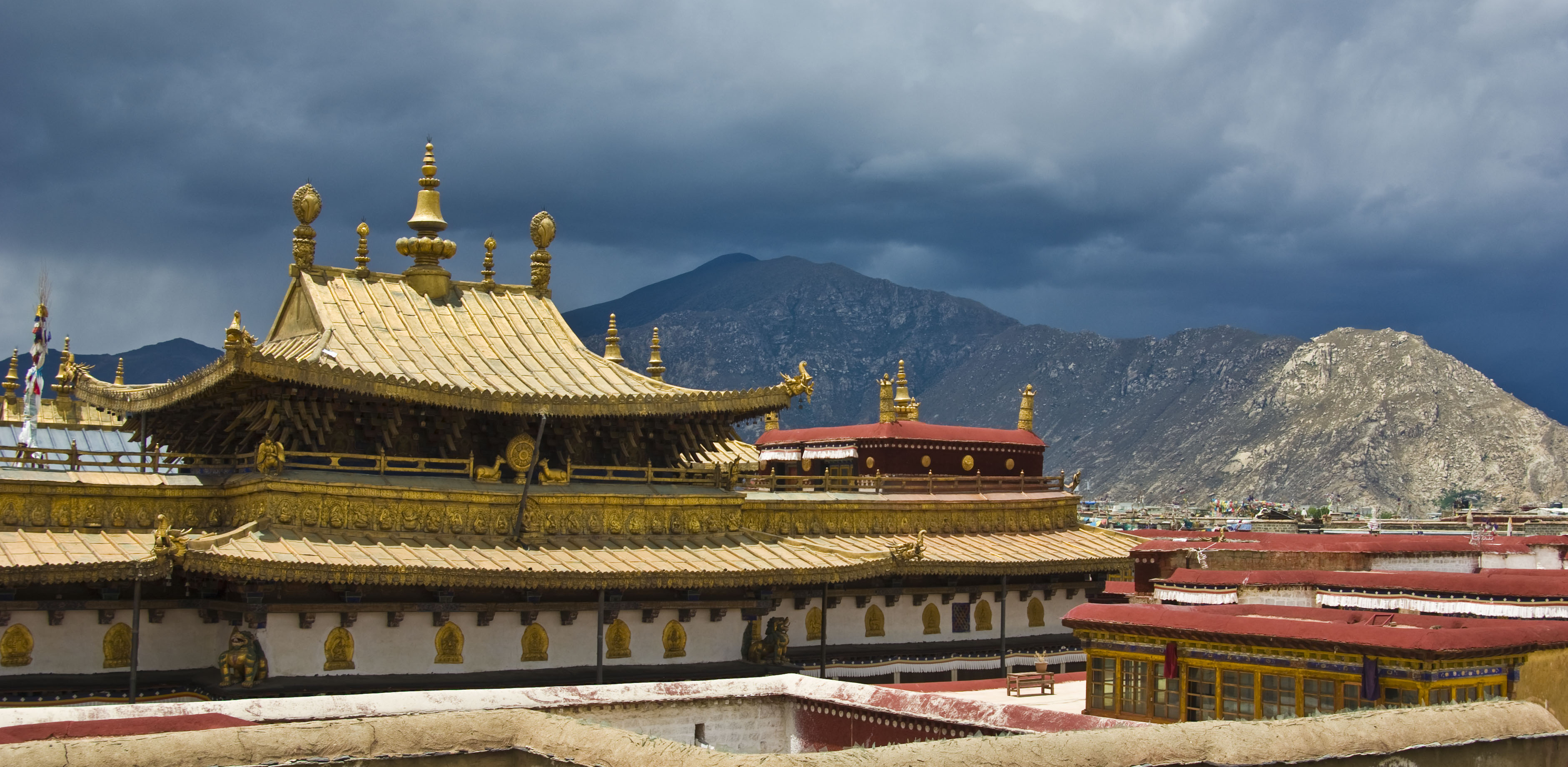 The roof of the Jokhang temple